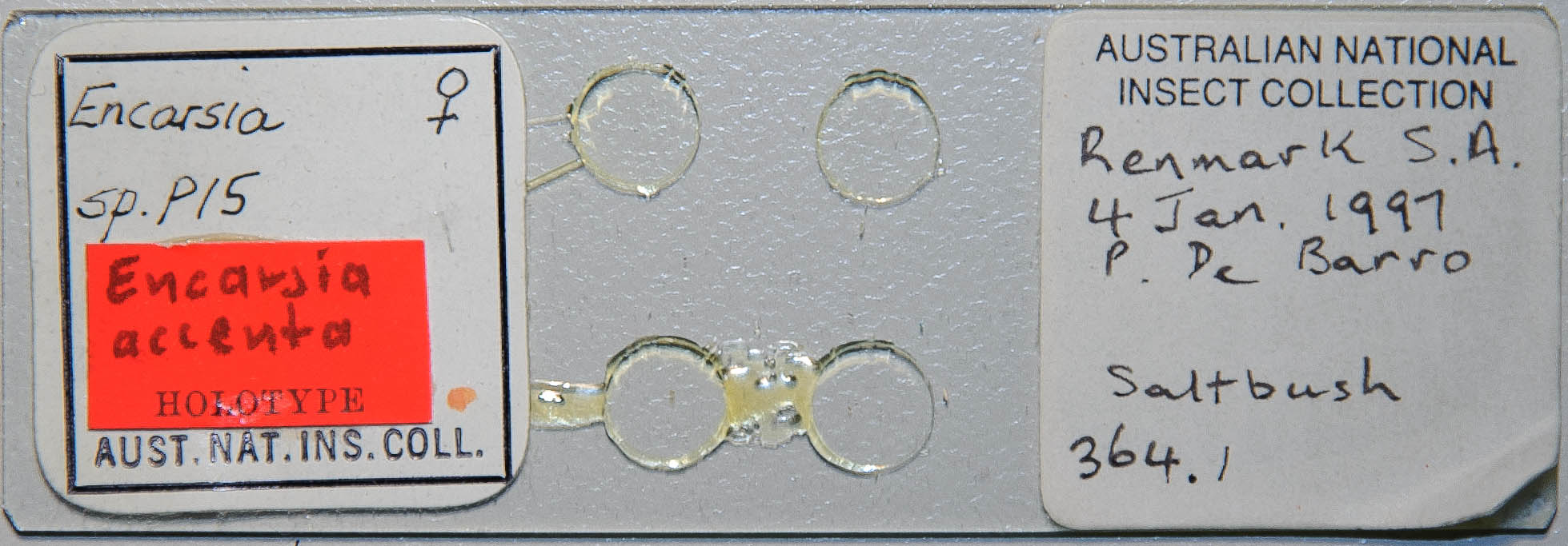 Encarsia accenta holotype slide